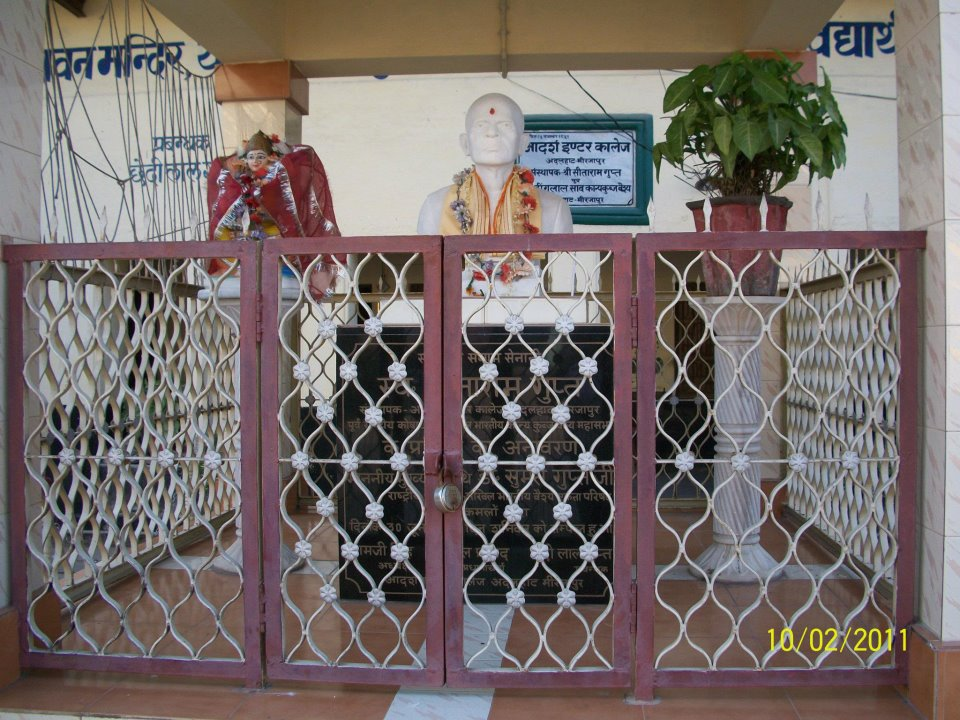 Bust of late Shri Sita Ram Gupta, founder, Adarsh Inter College